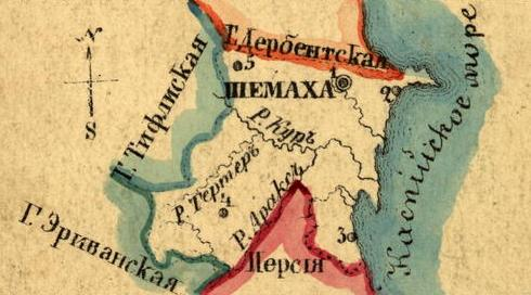 Gubernia of Shemakha map